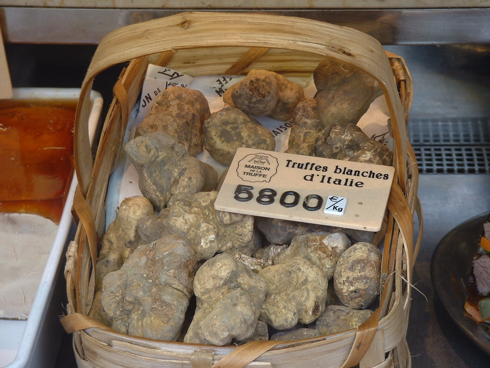 Truffels 5800 Euro/kg